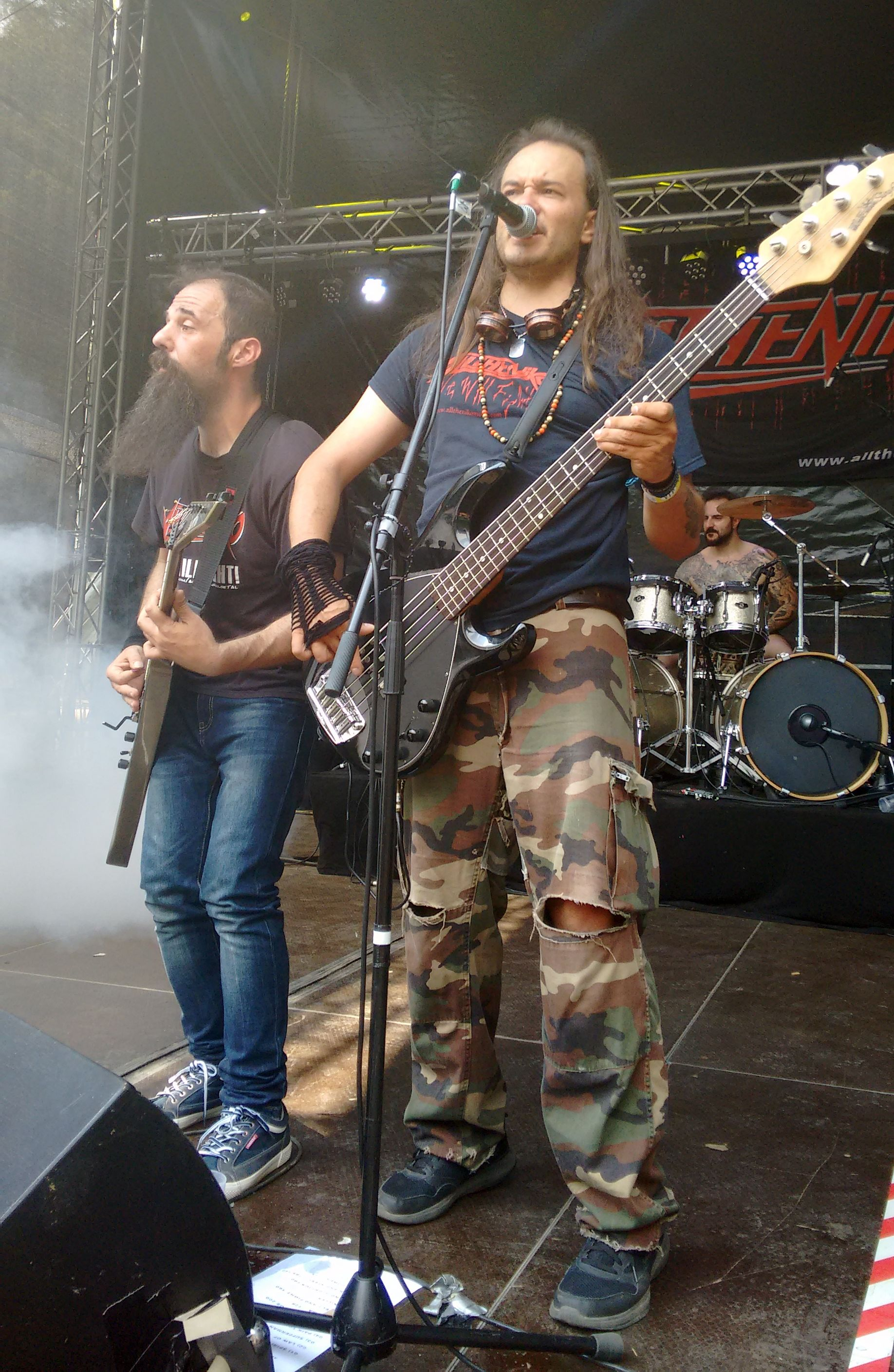 Italian Heavy-Metal-Band Alltheniko at Hard 'N' Heavy's Summernight Open Air 2018 (Mechernich, North Rhine-Westphalia, Germany) – Singer and Bass Player Dave Nightflight standing in the front, Guitarrist Joe Boneshaker right behind him and Drummer Luke the Idol in the back